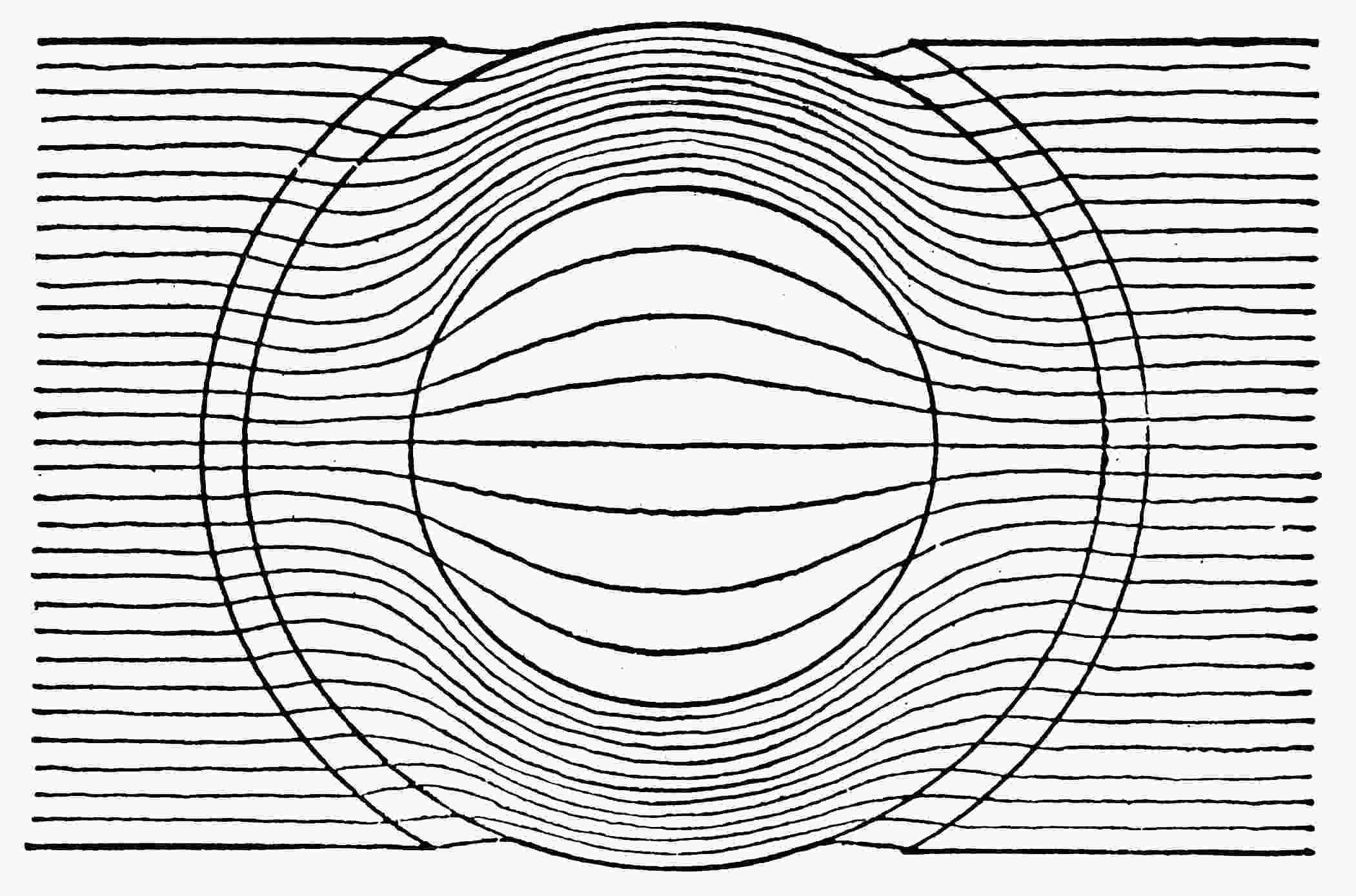 Original text from illustration: Figure 250: Distribution of magnetic lines of force through a Gramme ring. Since the metal of the ring furnishes a path of least reluctance, most of the magnetic lines will follow the metal of the ring and very few will penetrate into the aperture of the interior. This condition causes a serious defect in the action of ring armature armatures rendering the winding around the interior useless for the production of electromotive force. Hence, in ring armatures only about half of the winding is effective, the rest being "dead wire", adding its resistance to the circuit, thus decreasing the efficiency of the machine.